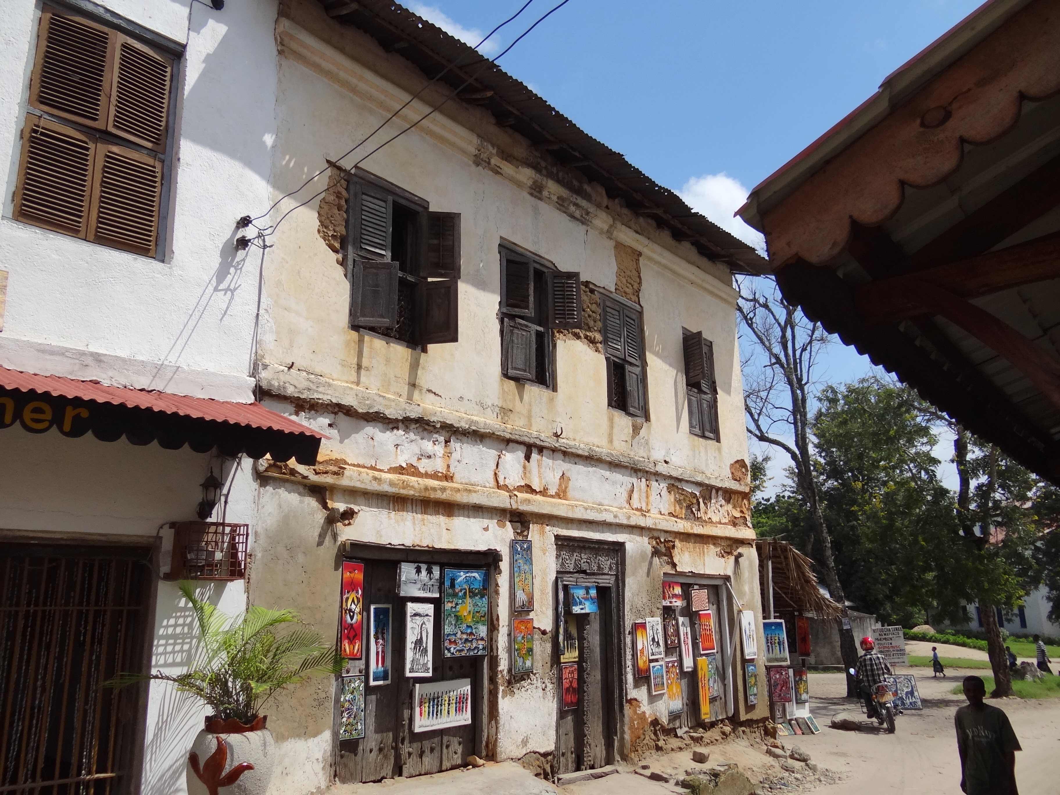 Street Scene - Bagamoyo - Tanzania - 01